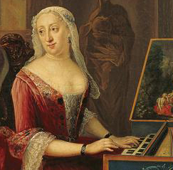 Portret of the family of Sara Rothé and Jacob Ploos van Amstel 1735 (detail)